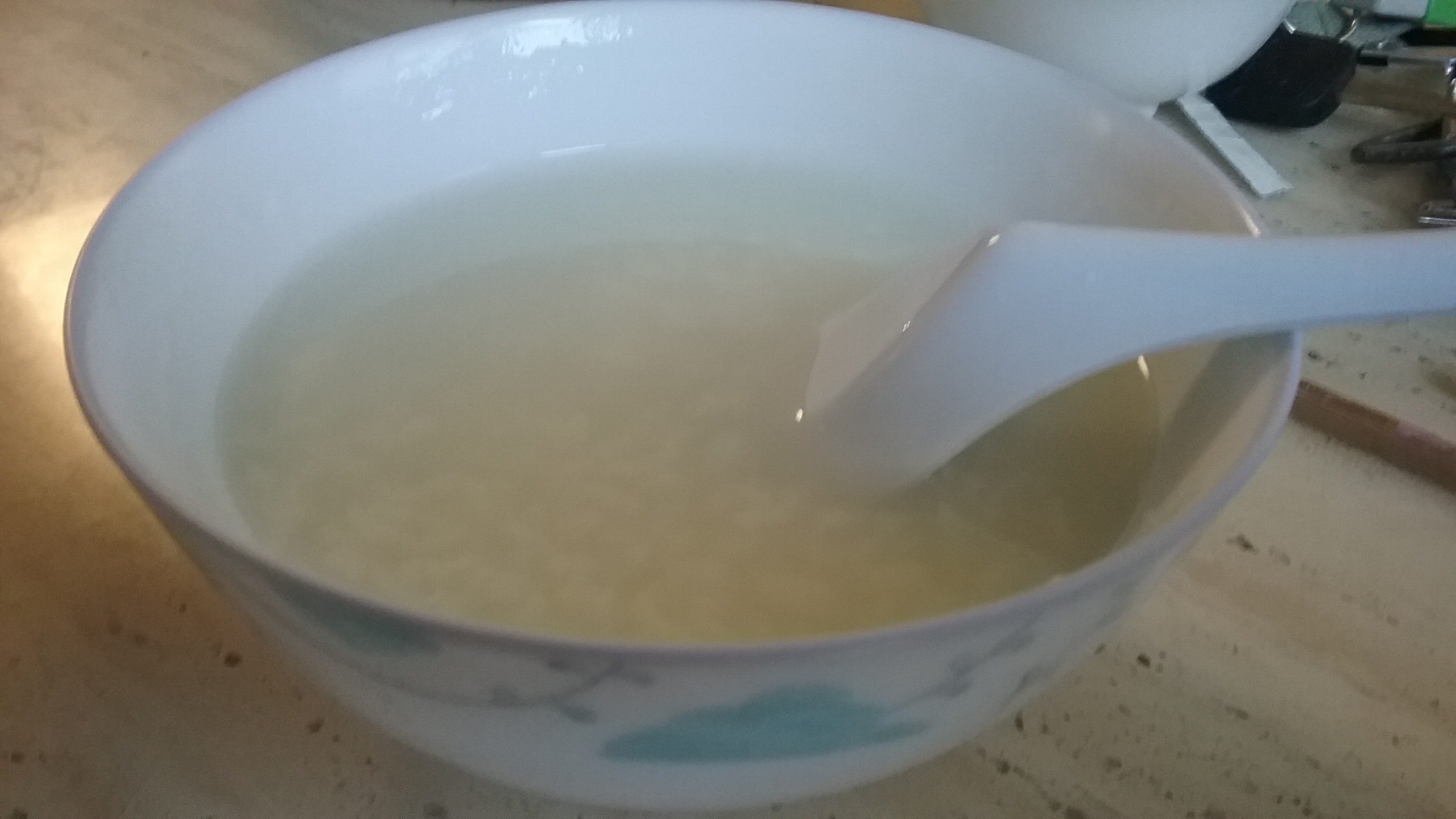 A bowl of white congee, at Clovis, California